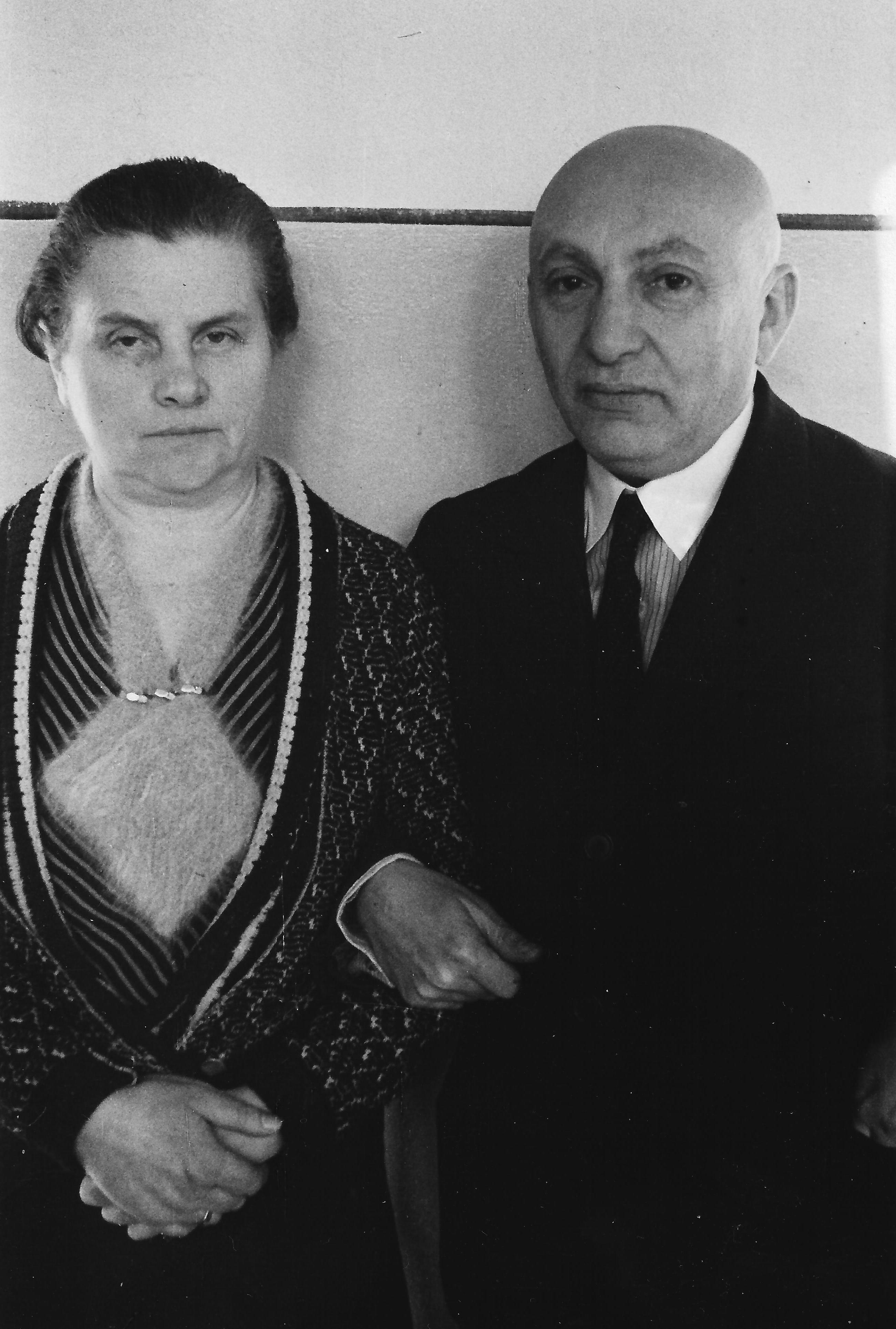 Hebrew/Yiddish Warsaw Publisher Benjamin Szymin (1880-1942) with his wife Regina (Rifka)